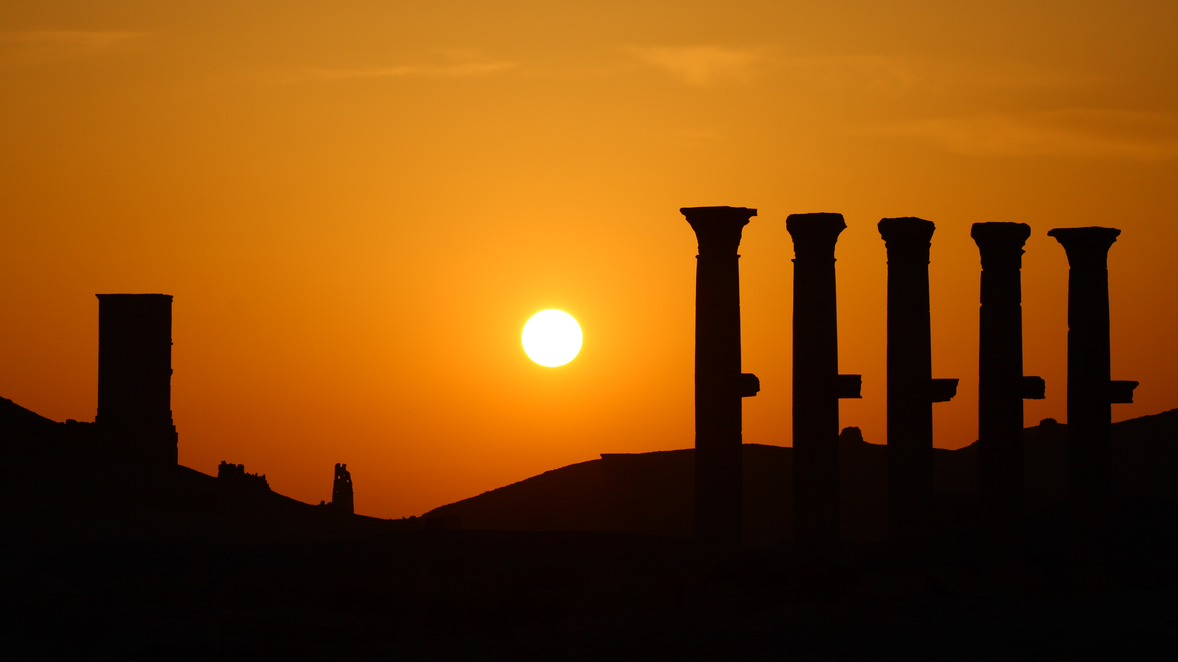 Sunset in Palmyra.